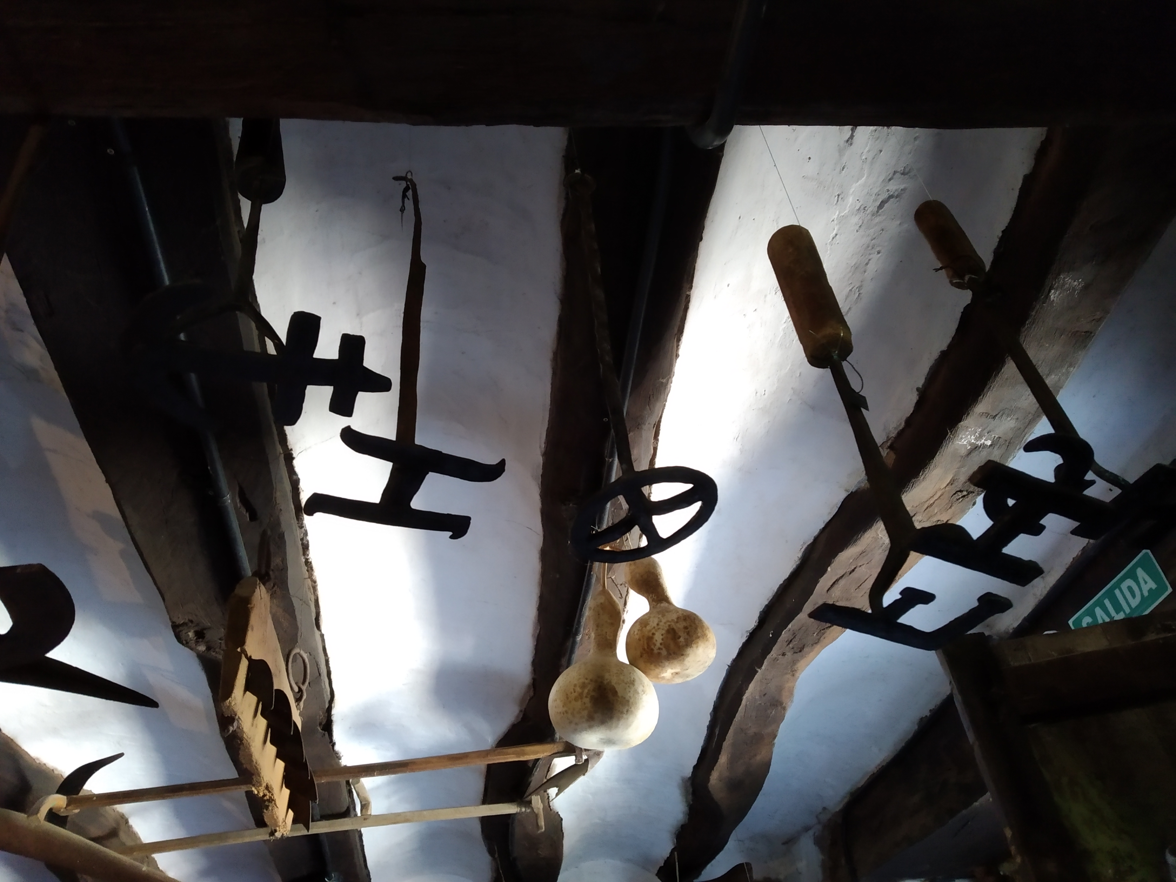 Brading irons at the Ethnographic Museum of the Kingdom of Navarre